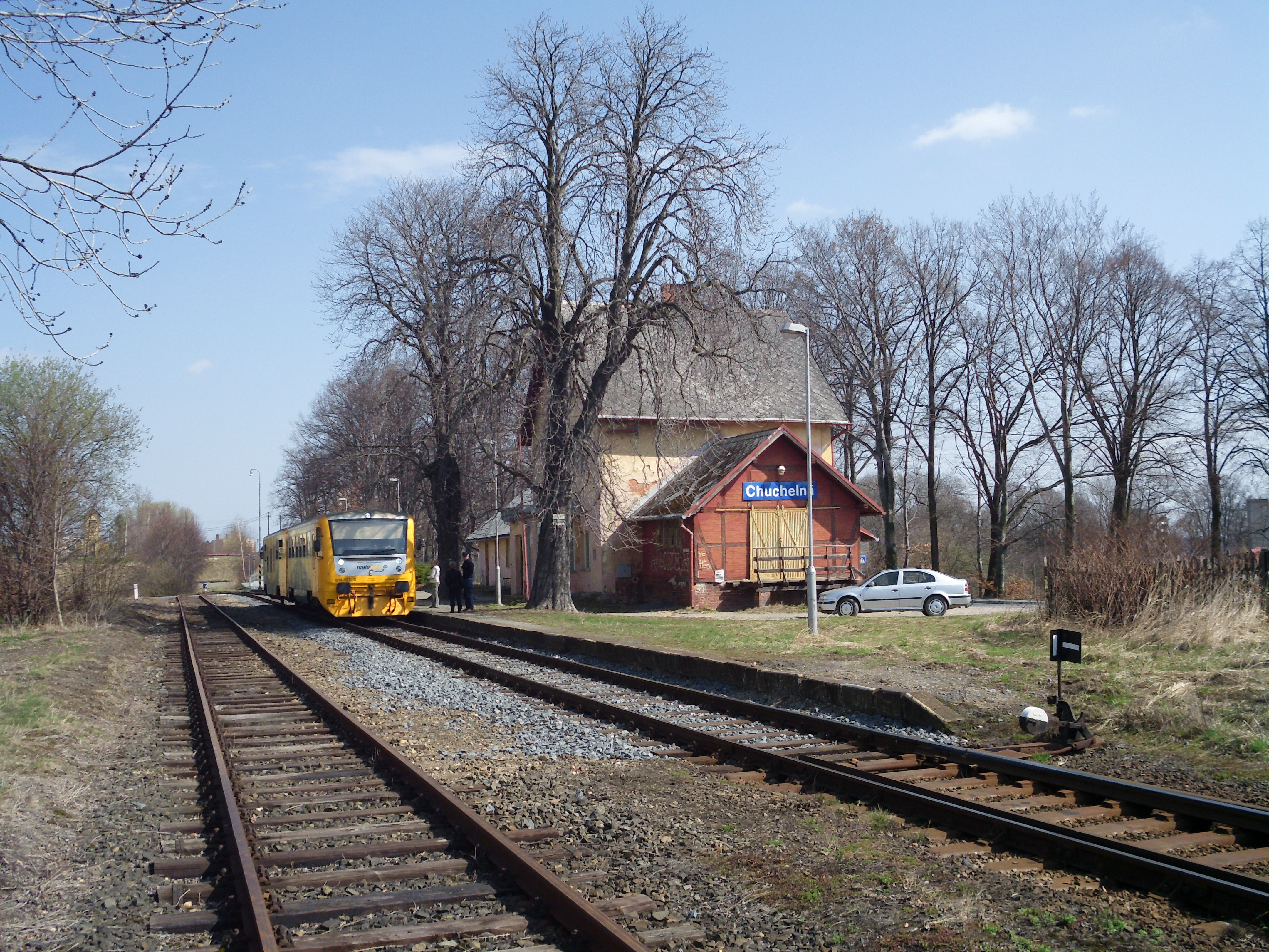 Train station in Chuchelná, Czech Republic, with a Regionova (914 121-9) diesel railcar on a regular passenger train.